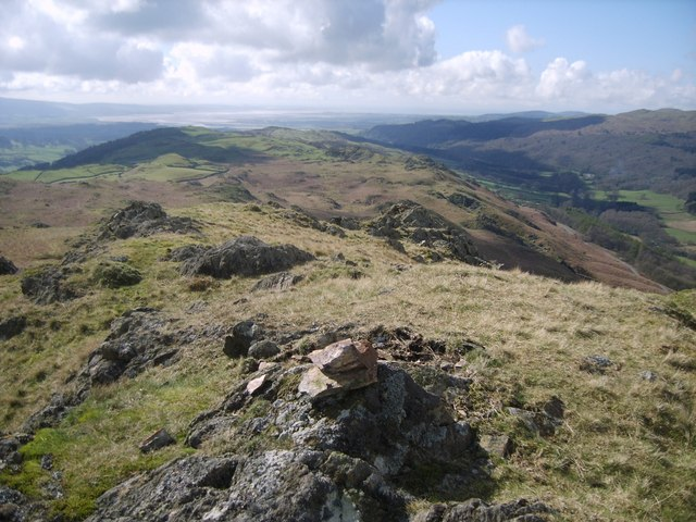 Dunnerdale Fells Possibly the top of one of the more obscure Outlying Wainwrights. Looking towards the coast.